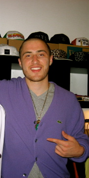 Mike Posner at Motivation Boutique in Ann Arbor, MI